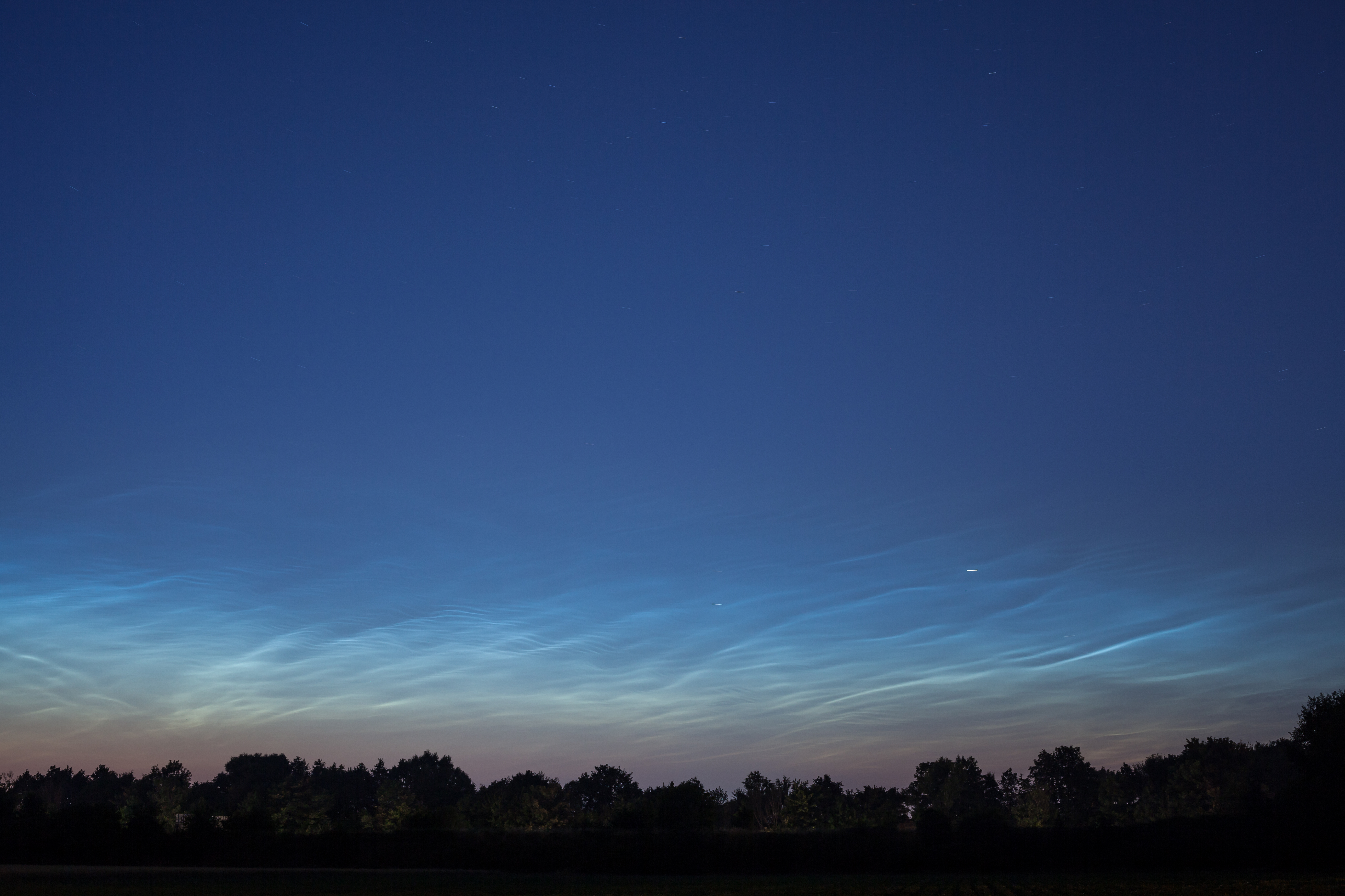 Noctilucent clouds. Seen on the night to 11/07/2015 in the north of Hannover, Germany.